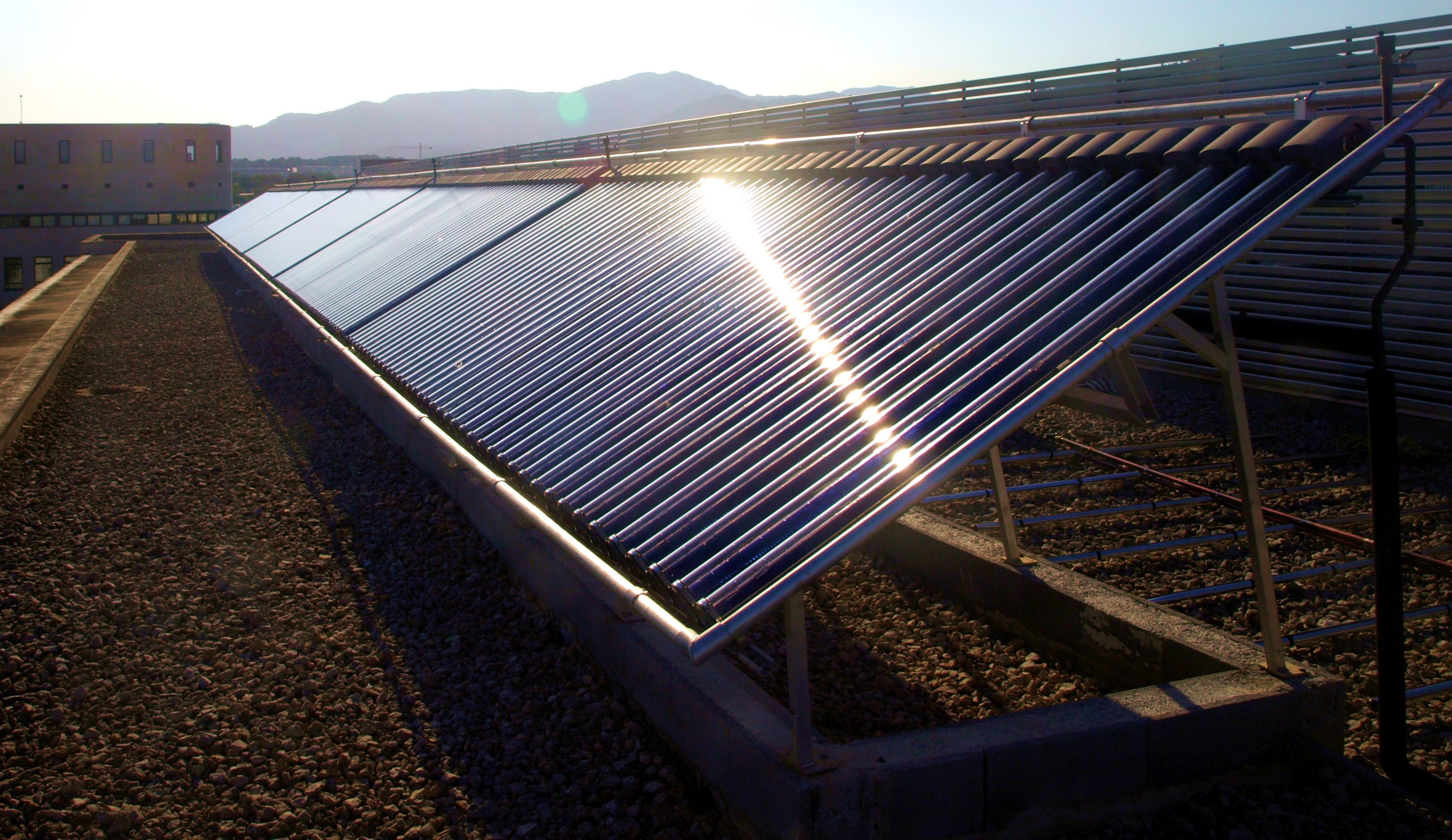 Vacuum tube solar collectors in a solar cooling absortion system